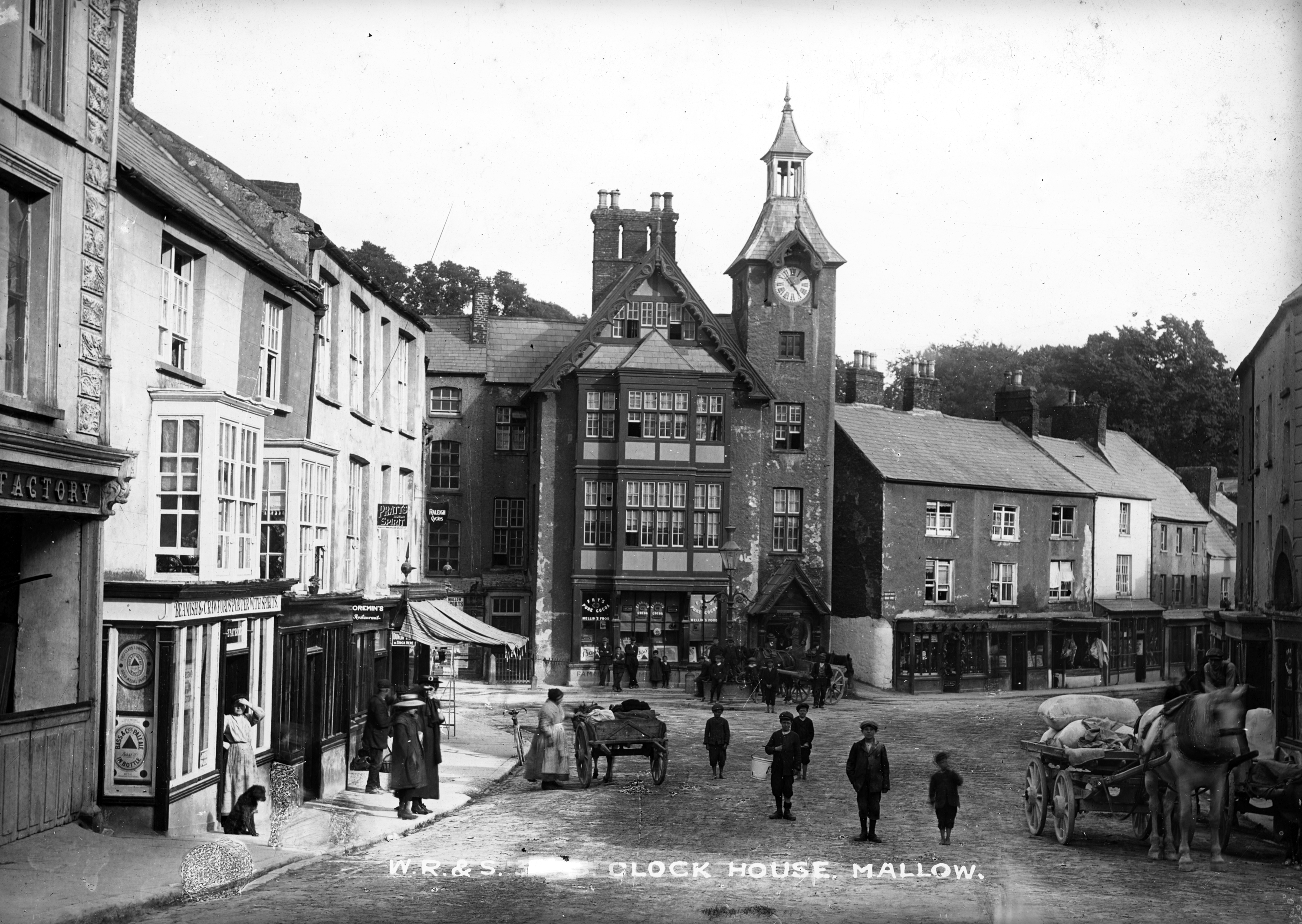 Following a gentle nudge from guliolopez yesterday, that he'd been "waiting patiently for a Cork photo for a while", I thought we might indulge him with another today. We don't want to get on the wrong side of anyone from the People's Republic! So, here's a gorgeous one of Mallow taken at about 4.55 on a very sunny day... Thanks to Gerry Ward for filling in the blanks in our knowledge about the gorgeous Clock House: "The Clock House was build around 1855, by Sir Denham Orlando Jephson. He was an amateur architect who is said to have designed this house after he had returned from an alpine holiday. The Clock was brought from the tower of the Old Mallow Castle. The bell was cast at Millerd Street, Cork. The bell tower became dangerous and was removed c1970, but was restored in 1995." Date: Circa 1901?? NLI Ref.: EAS_0906